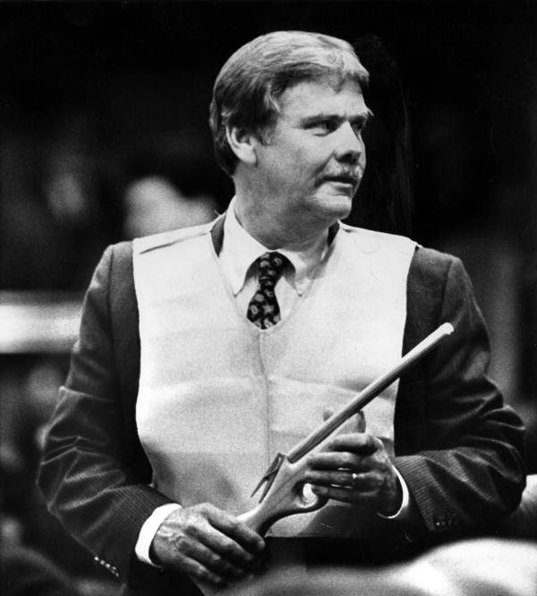 Florida legislator Carl Carpenter